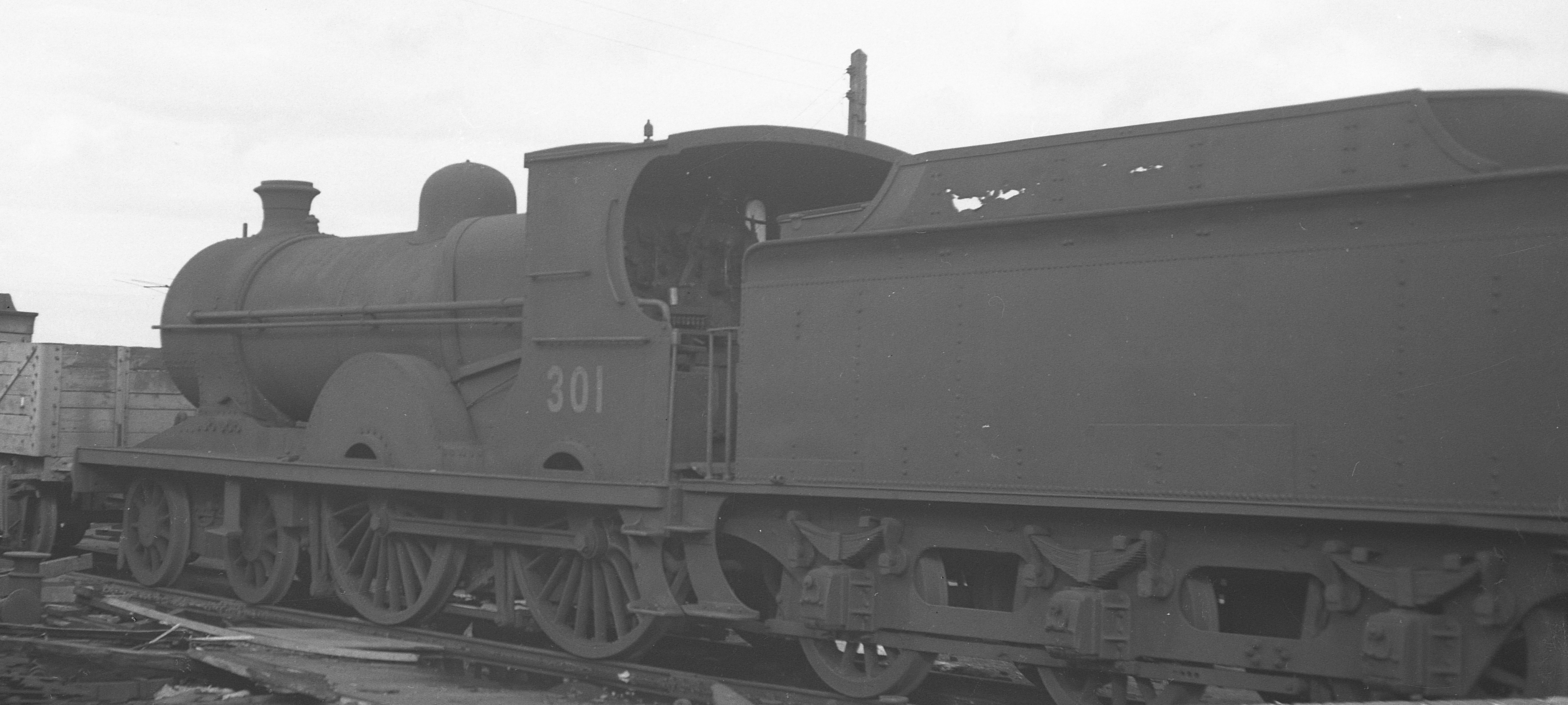 CIÉ (formerly GS&WR) 301 No. 4-4-0 D11 express passenger locomotive at Amiens Street in 1962. This locomotive, designed by Robery Coey and introduced in 1900 for Cork expresses is understood to have been withdrawn in 1960.